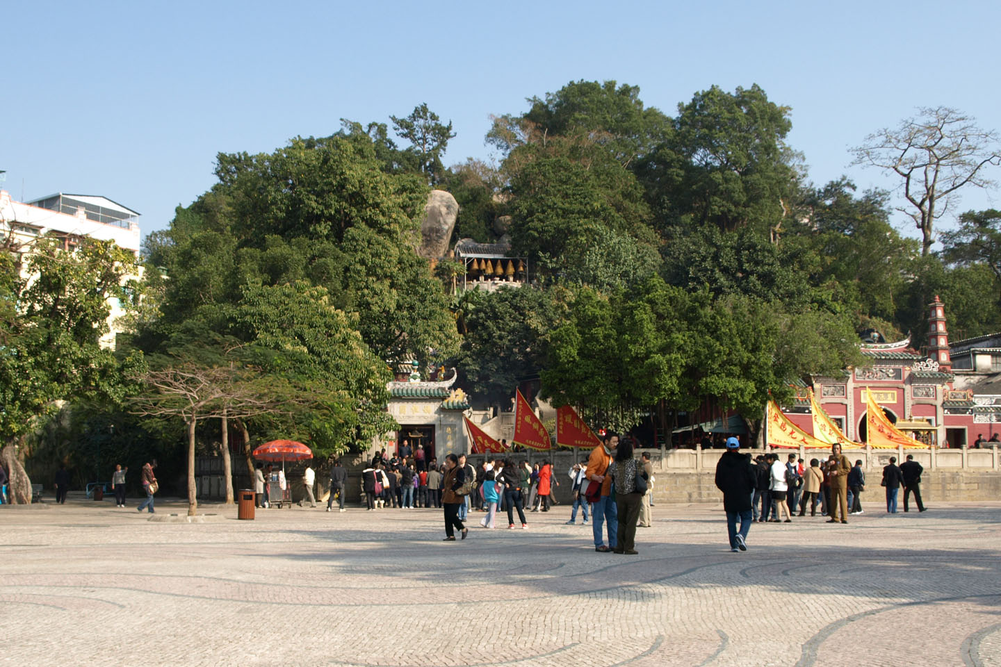 A-Ma Temple in Macau